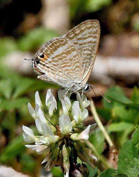 Pea Blue Lampides boeticus. Shot taken at Kasol (6500 ft.), Kullu distt. of Himachal Pradesh, India during Sar Pass Trek.